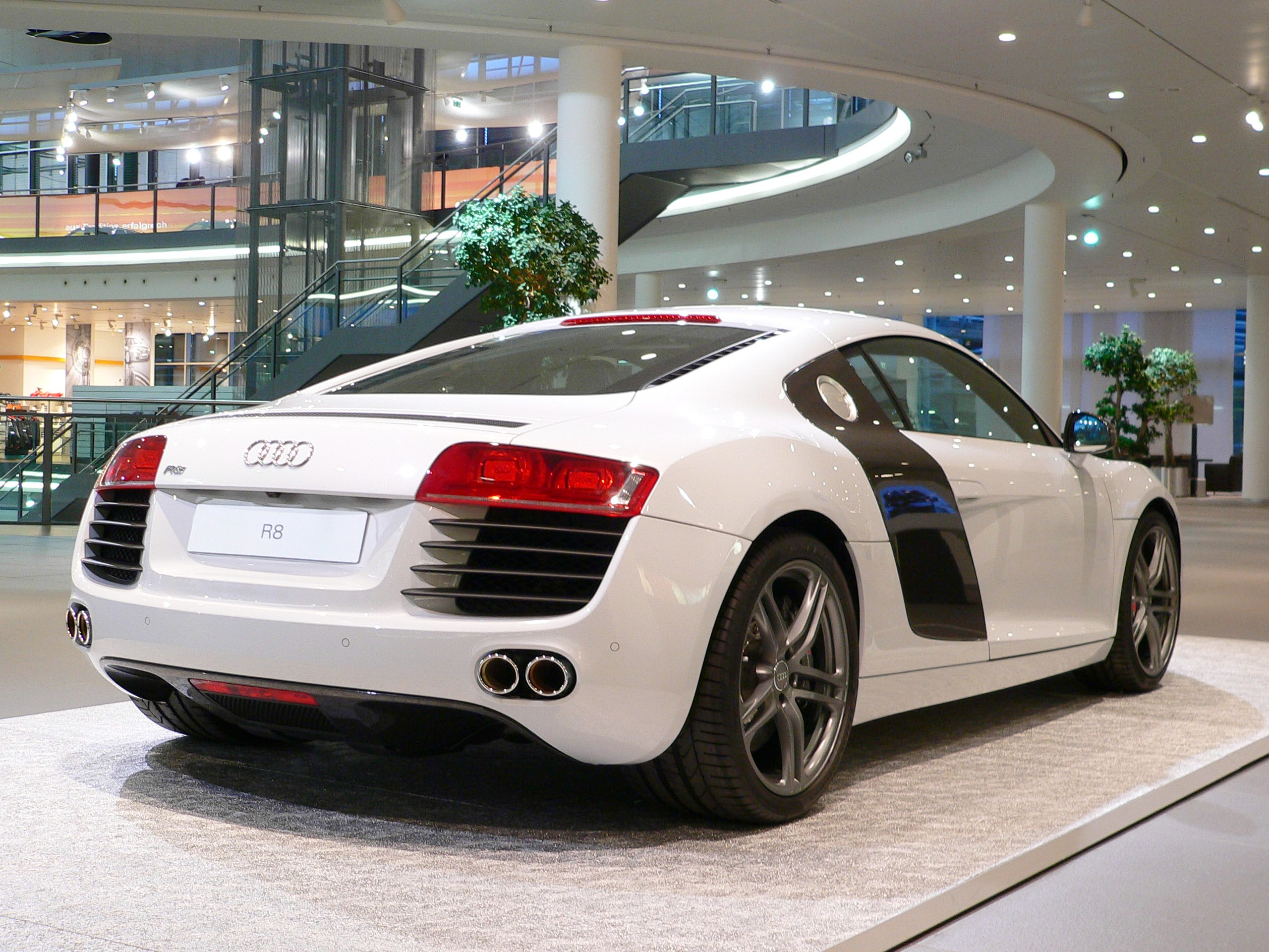 "Audi R8" at the Audi-Forum of the Audi AG in the City Neckarsulm/Germany